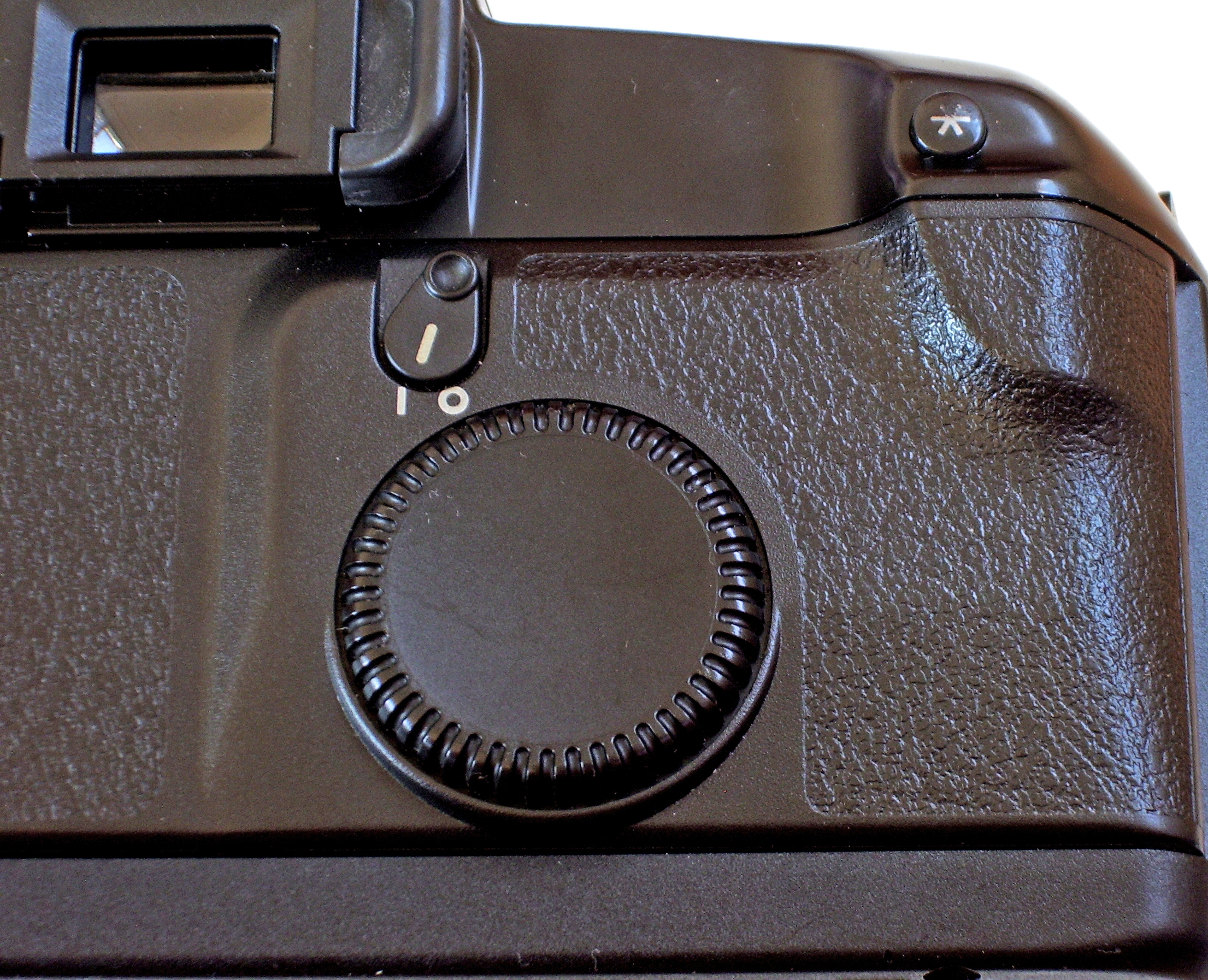 Canon EOS 100 back, showing Quick Control Dial, Quick Control Dial Switch and AE Lock Button.